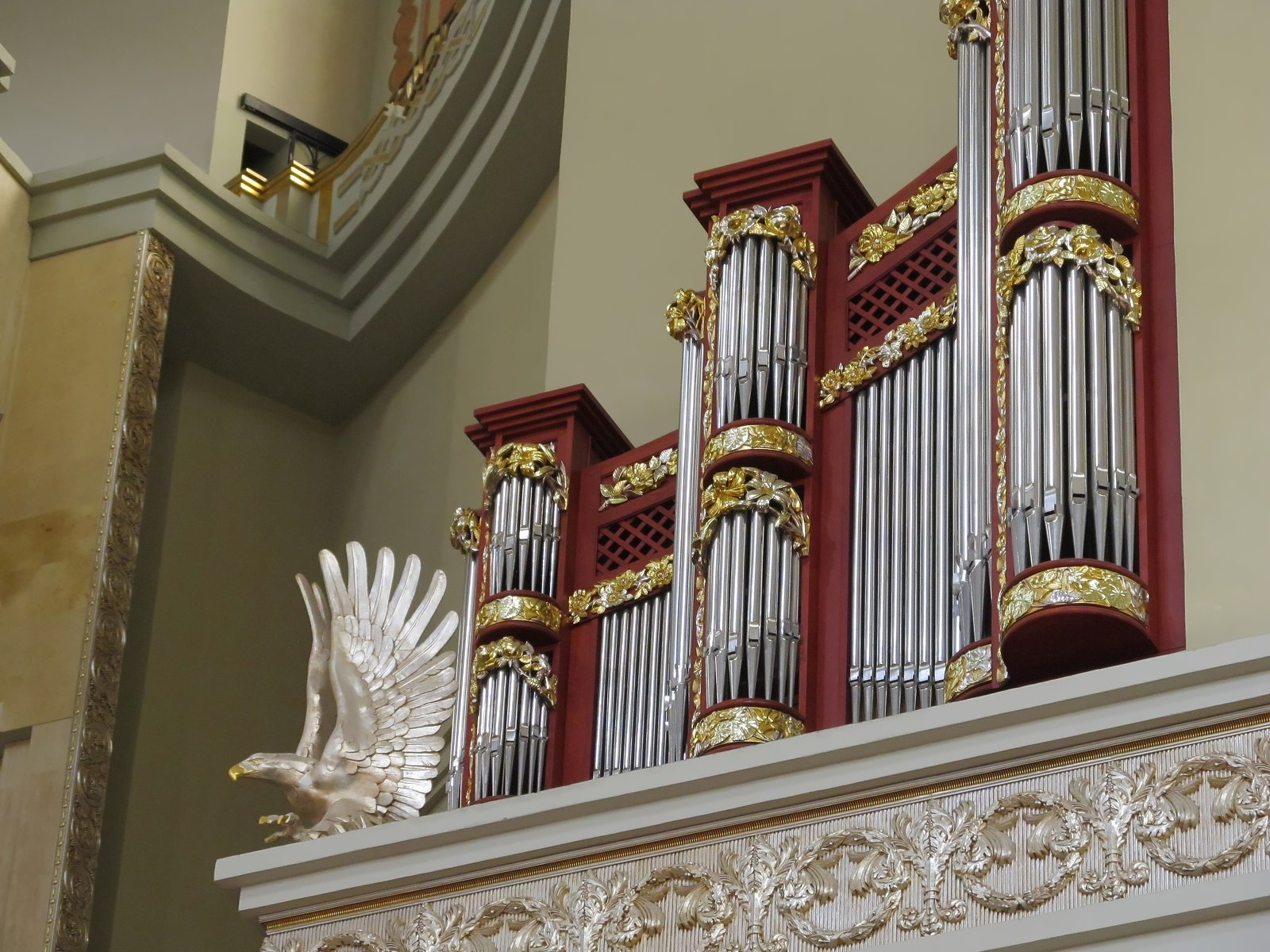 The interior of the Basilica of the Virgin Mary in Lichen Lichen Stary